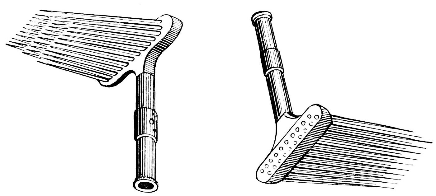 A pair of hand combs